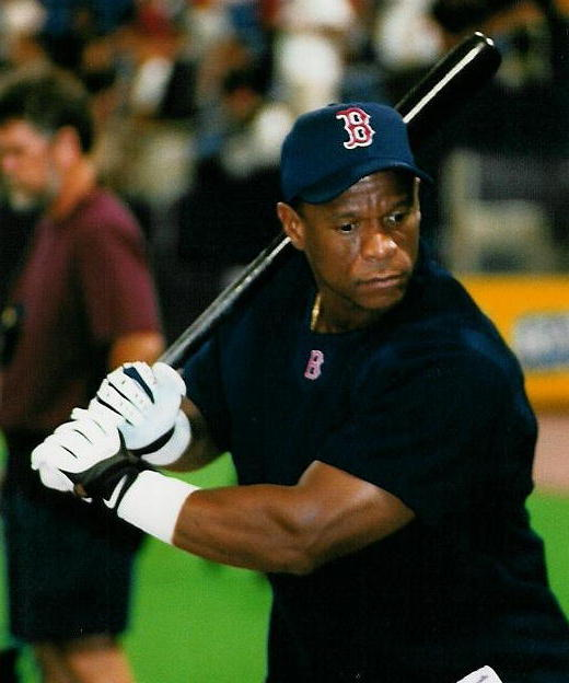 This photo was taken by user dlz28 and has been released in the public domain. 17:19, 28 April 2006 . . Dlz28 . . 520×624 (44 KB)